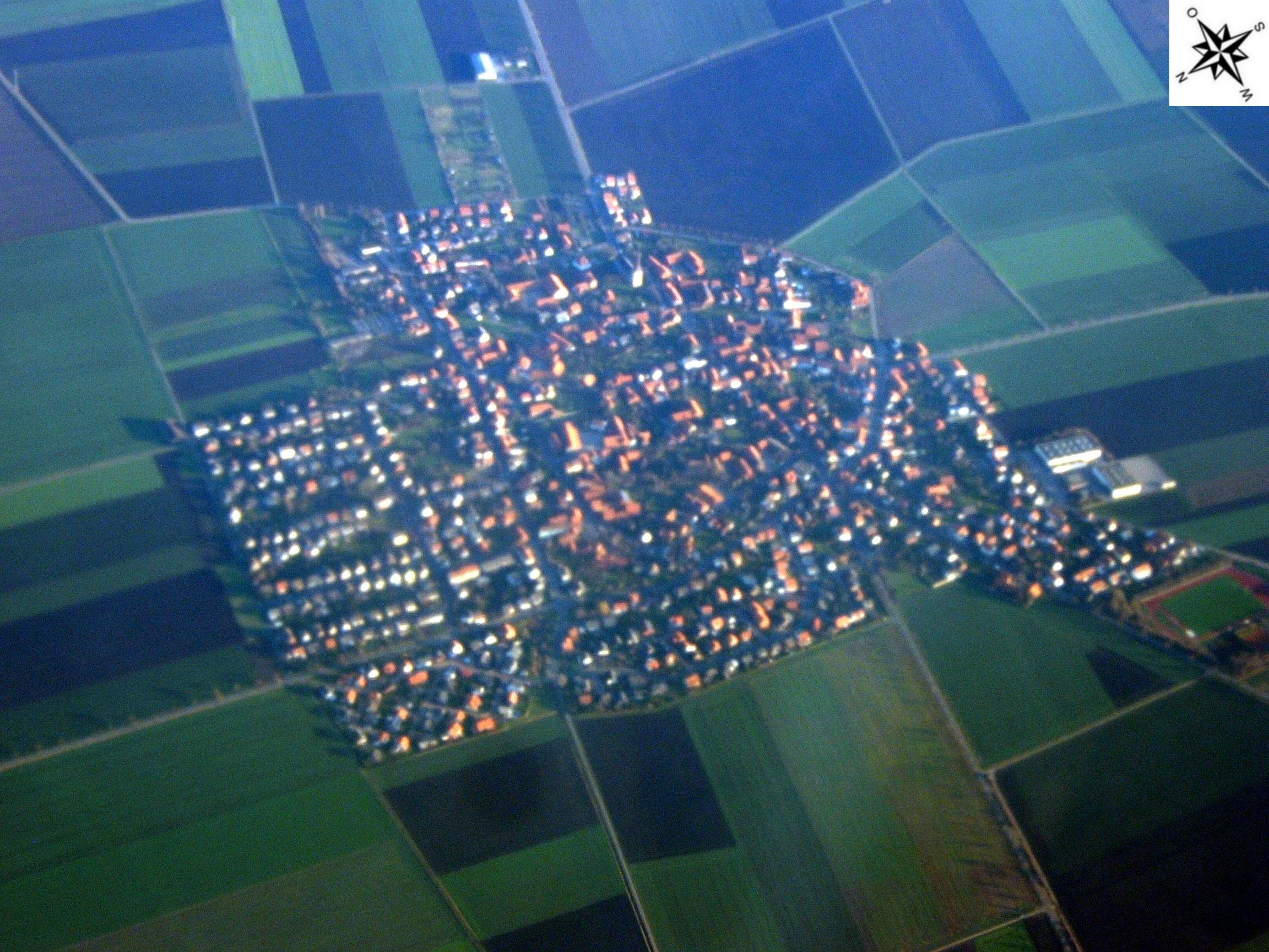 Aerial view of Borsum (Harsum), Lower Saxony, Germany